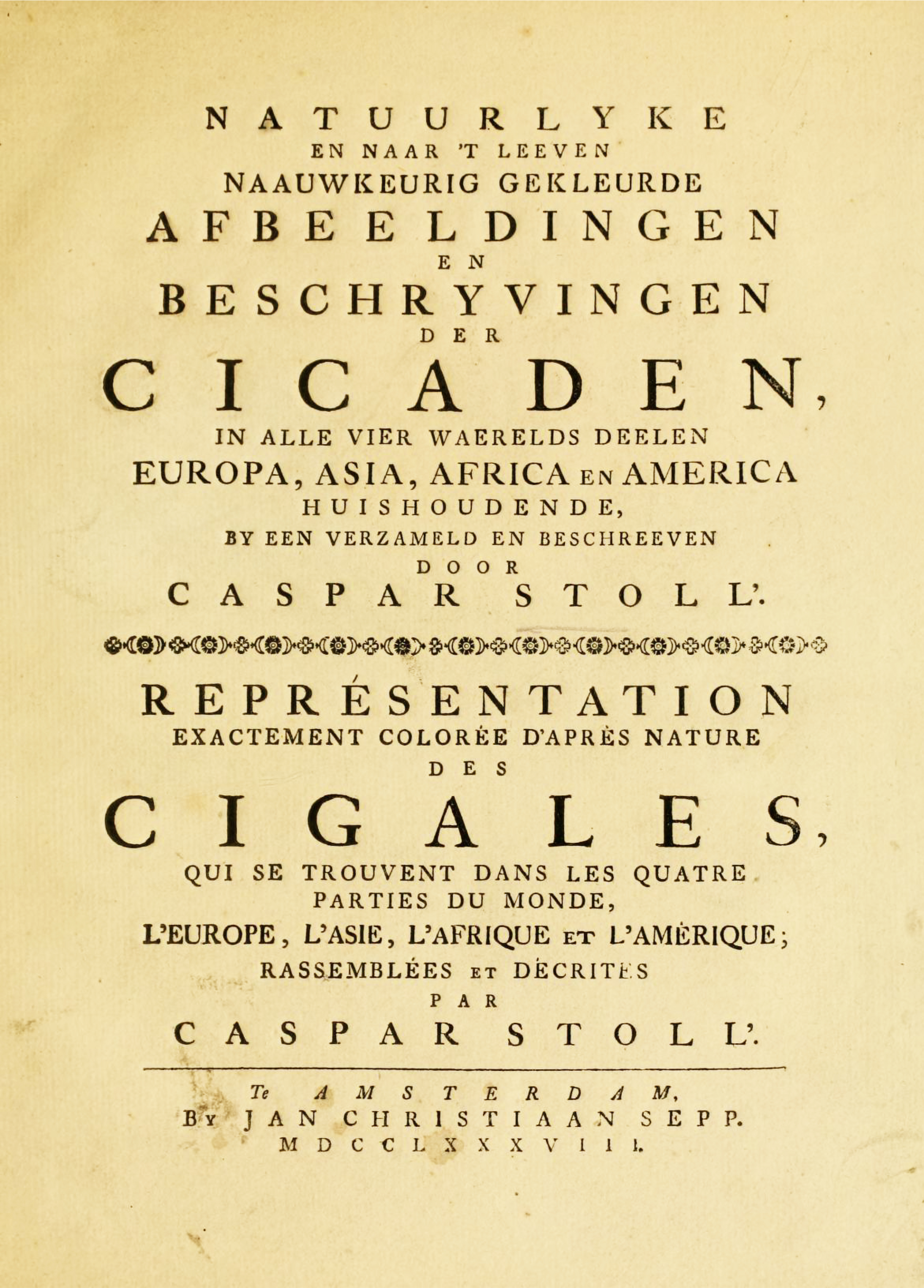 Caspar Stoll Afbeeldingen en beschryvingen der cicaden title page